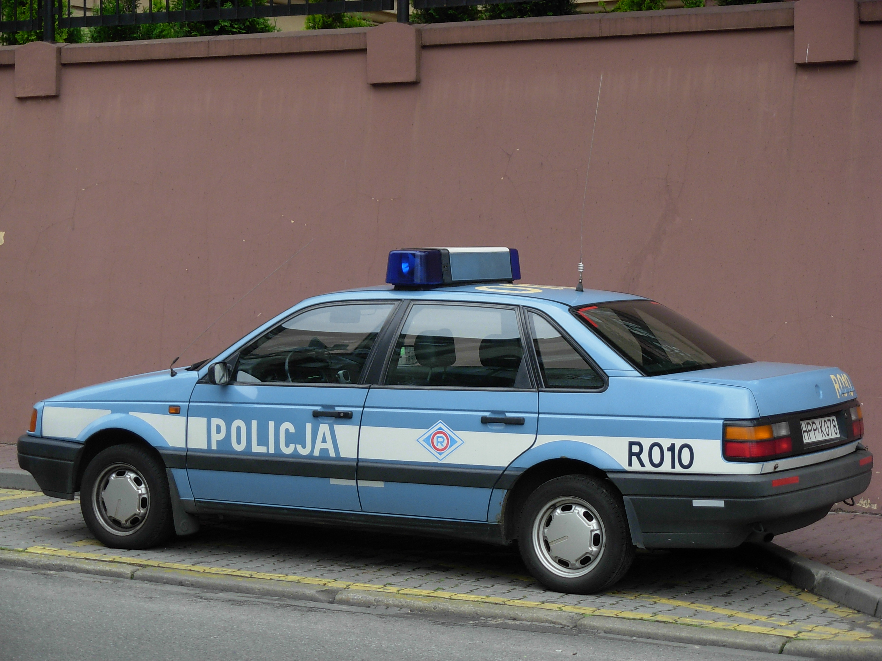 Polish police traffic car (indicated by the letter R) in Katowice